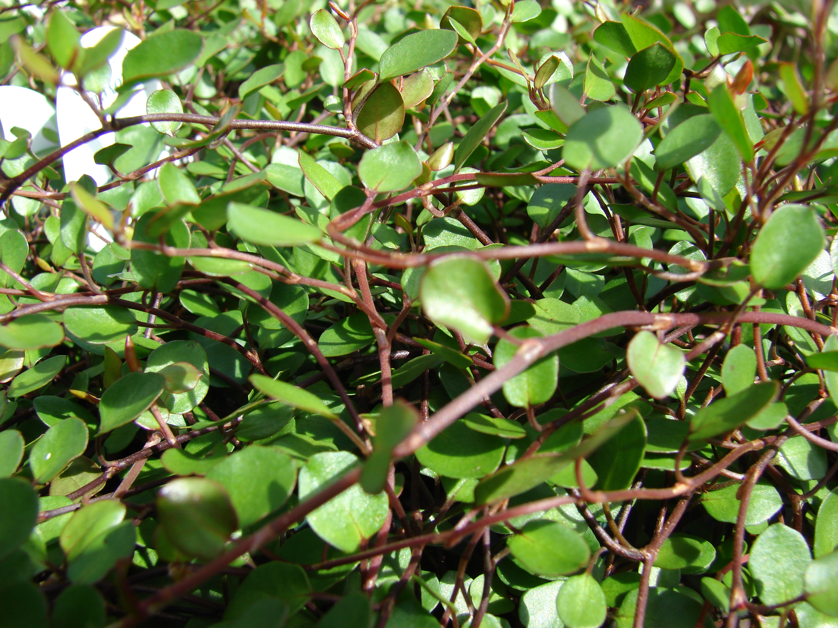 Muehlenbeckia complexa (habit). Location: Maui, Kula Ace Hardware and Nursery